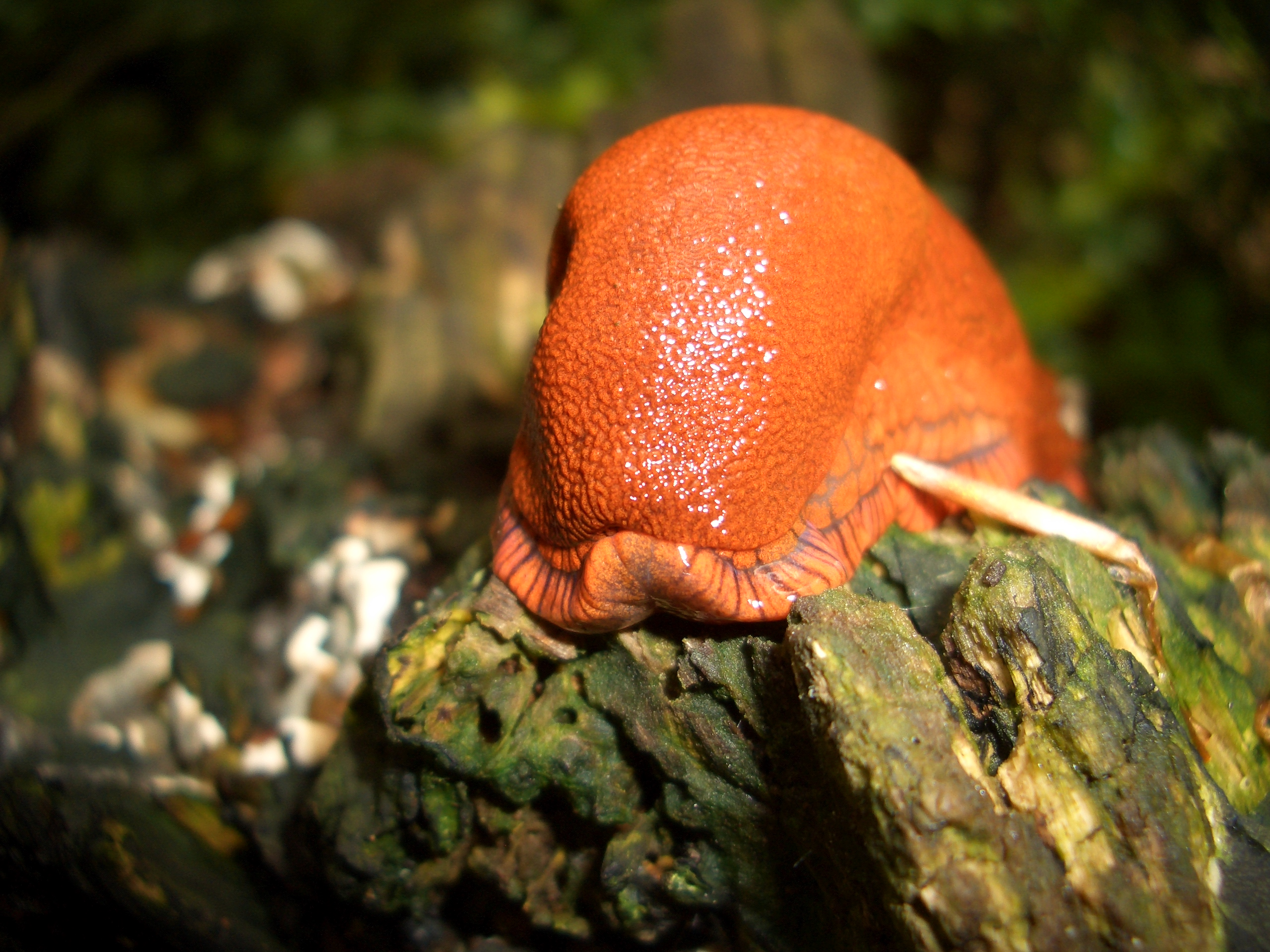 A macro photography of a slug Arion sp. on a piece of rotten wood